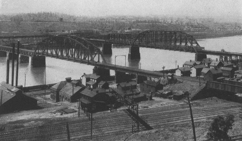 Photograph of Port Perry, Pennsylvania, circa 1914, as printed in Pittsburgh: Glimpses of her life from many angles (1916). A less cropped version of this photo was published in the 31 October 1914 issue of Railway Review (vol. 55, no. 18, p. 527, "A Busy Traffic Center") with the following comment: "The accompanying view of the Port Perry tonnage center is one that is rarely obtainable. The photograph was taken on a Sunday morning following a holiday when the fires in the mills burned low and when few trains and river craft were in operation. During ordinary business days this entire sweep of landscape is submerged in billows of dense smoke."